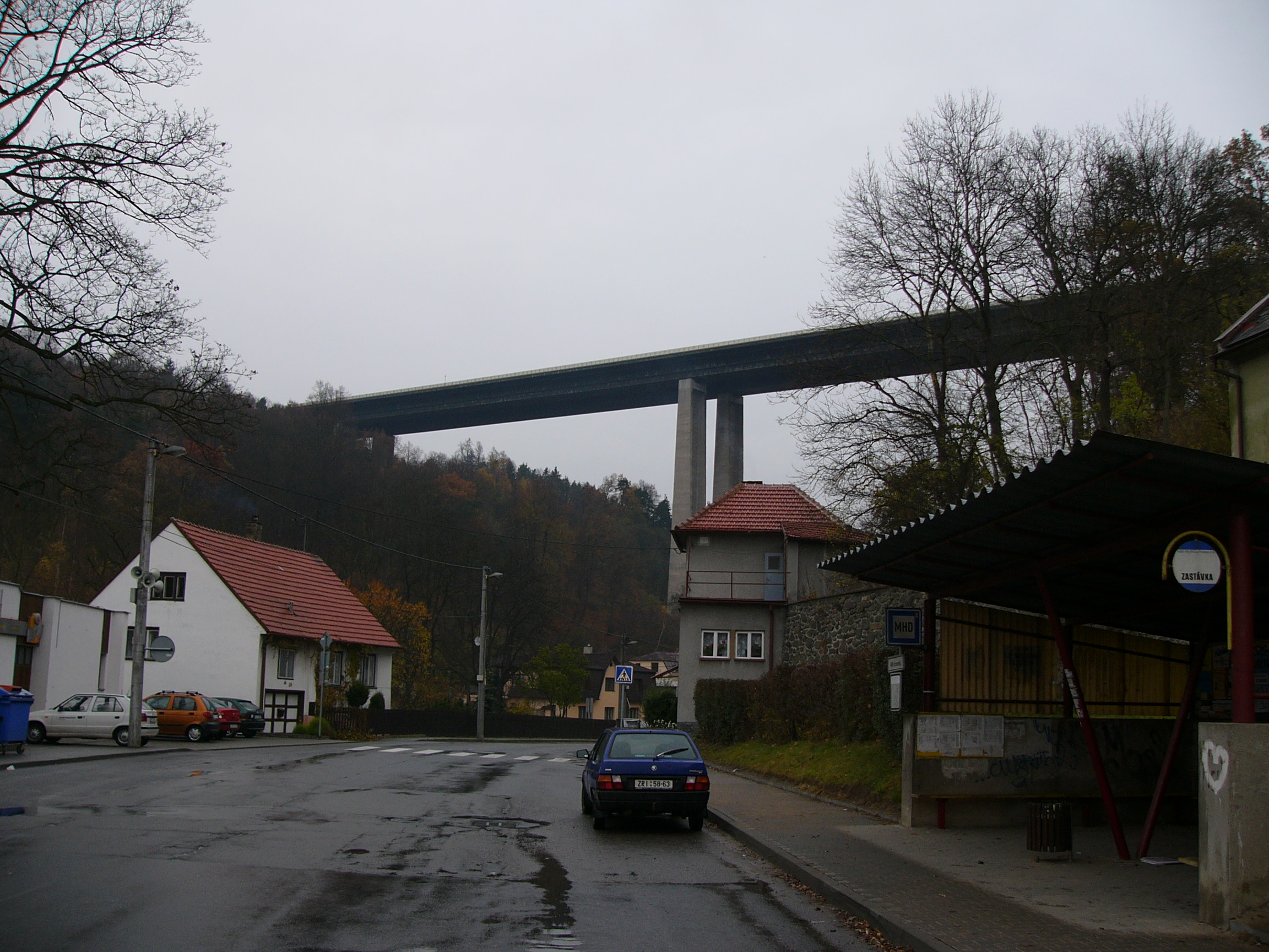 Bridge Vysočina on the Highway D1 in the Czech Republic. View from the South.